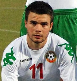 Radoslav Kirilov